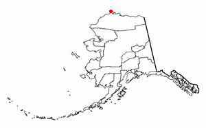 Adapted from Wikipedia's AK borough maps by Seth Ilys.